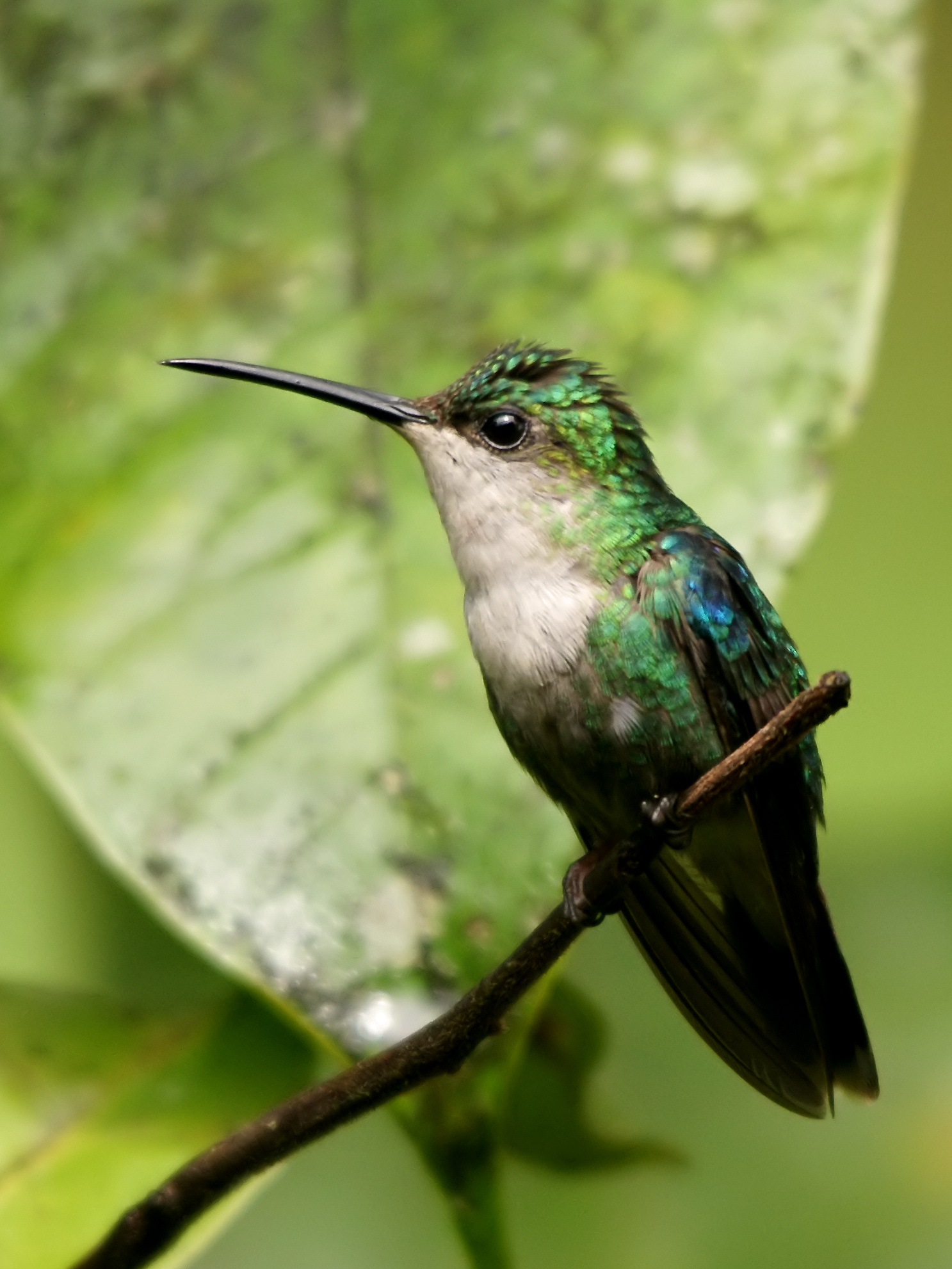 Female Violet-crowned Woodnymph at Rara Avis near Las Horquetas, Costa Rica